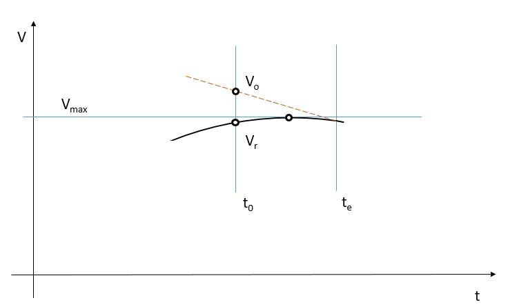 The calculating of the theoretical projectil velocity at the muzzle